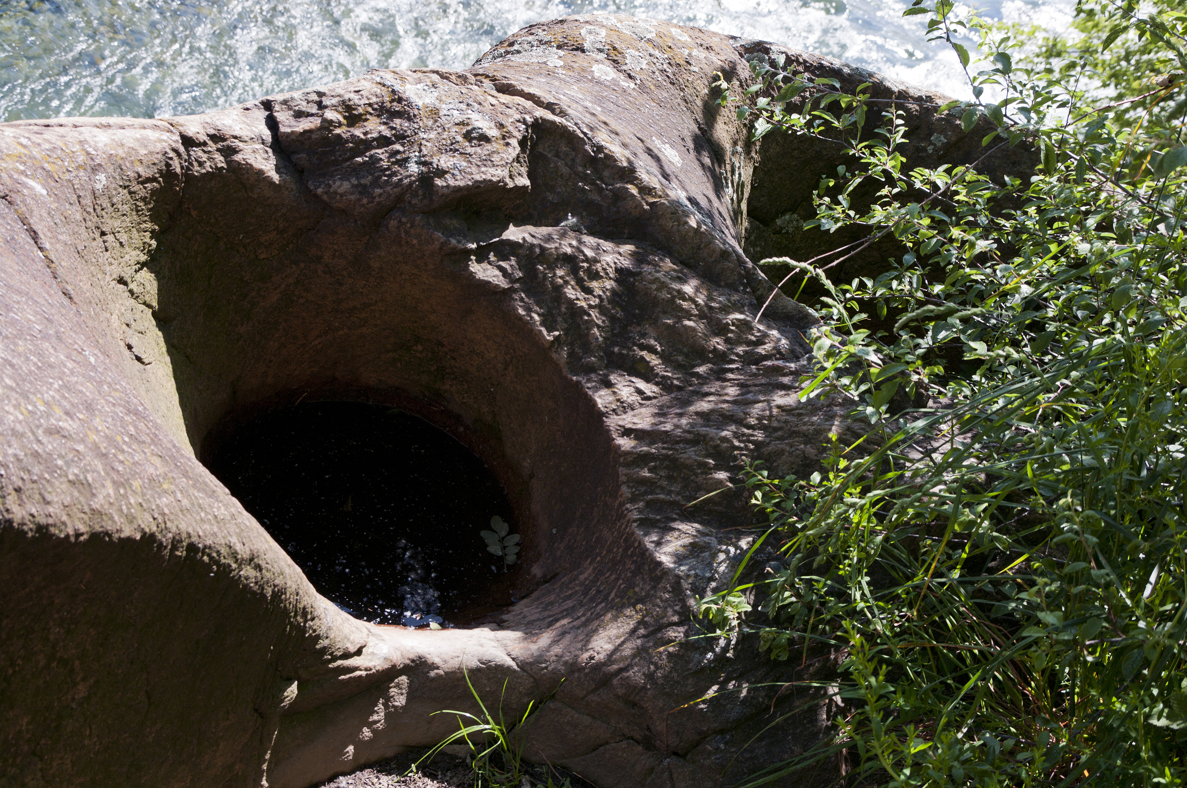 View of one of the "Giants' Pots" of Lanzo Torinese (TO) - Italy